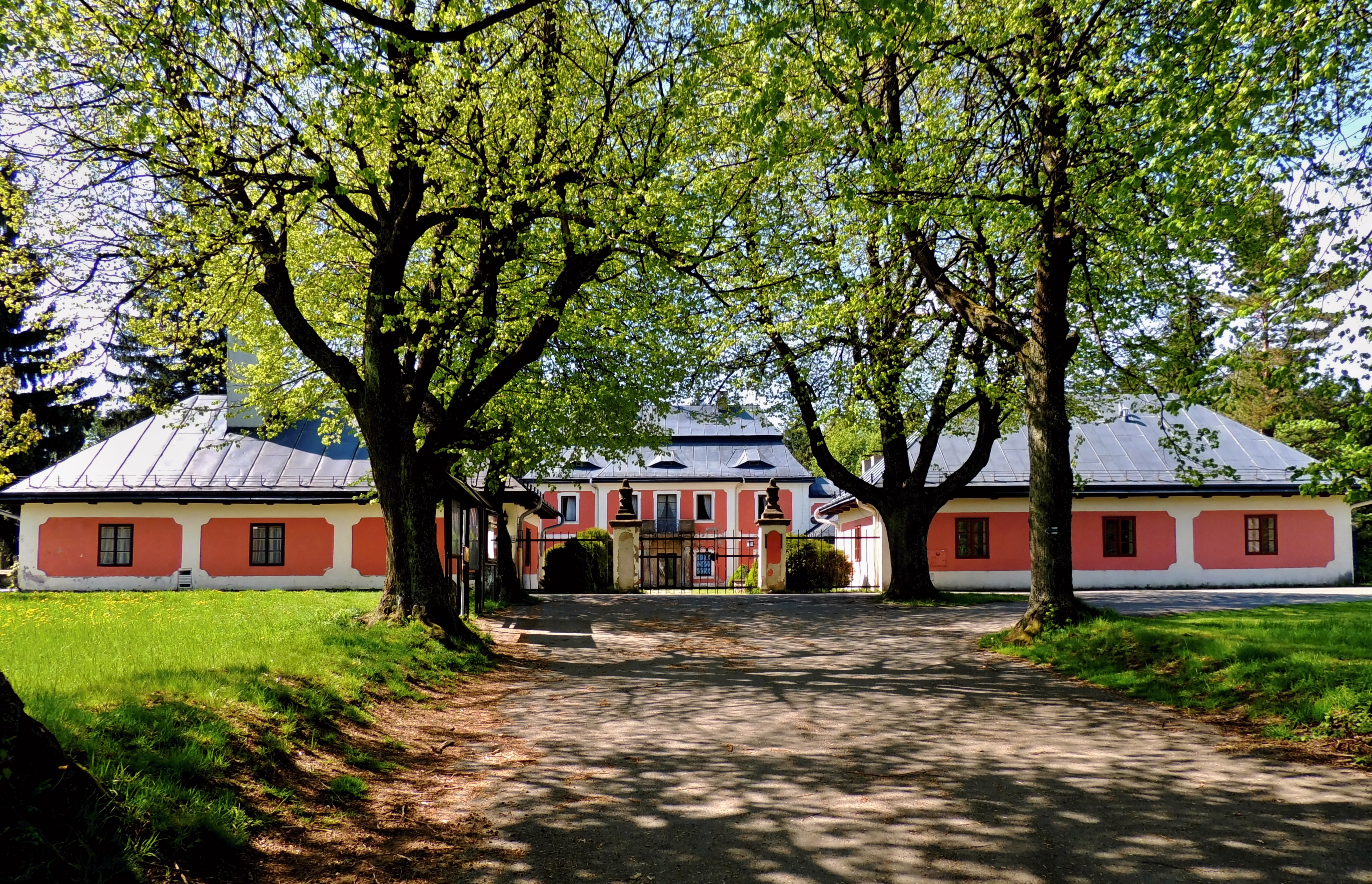 Karlštejn on the cadastral territory of Svratouch is originally a hunting castle built between 1770 and 1775 in the style of Central European Baroque, the architecture of the castle is sometimes presented as a rococo style. Since 1958 is the castle a cultural monument and has been included in the catalog of the National Monument Institute. The castle complex is situated in the settlement location of Karlštejn, part of the village Svratouch, from an administrative point of view in the district of Chrudim belonging to the Pardubice Region in the territory of the Czech Republic. Photo-location: Czechia, Pardubice Region, the village of "Svratouch", the hill with named "Karlštejn", azimuth 205°.